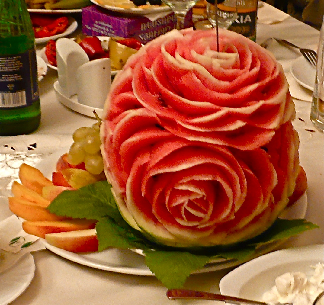 Dessert in Vanadzor, Armenia: cut and decorated watermelon, apples, peahces, pears, and grapes.